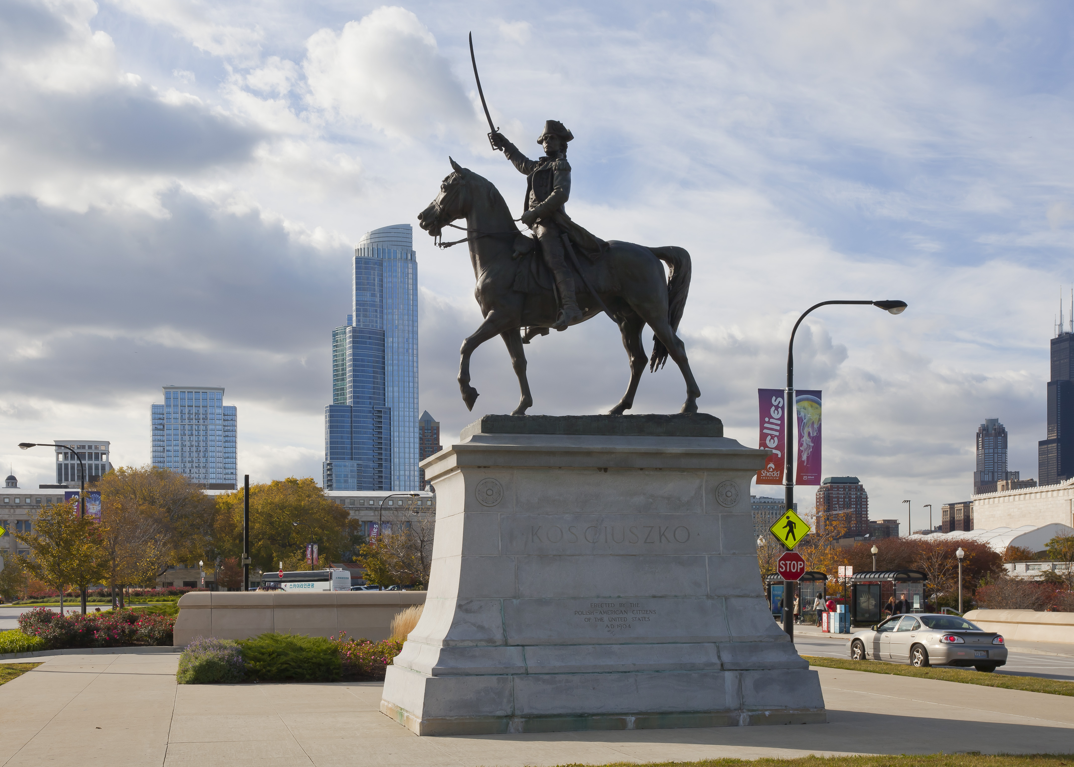 Tadeusz Kosciuszko Statue, Chicago, Illinois, USA